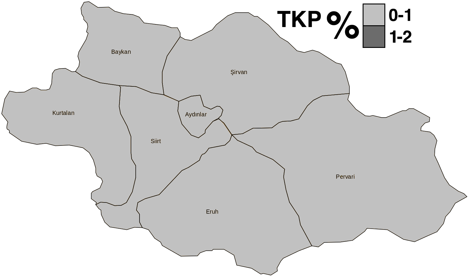 Votes received by the TKP in the 2003 Siirt by-election